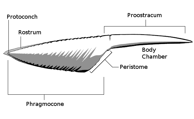 General morphology of Belemnotheutis internal skeleton. Rostrum cut away.